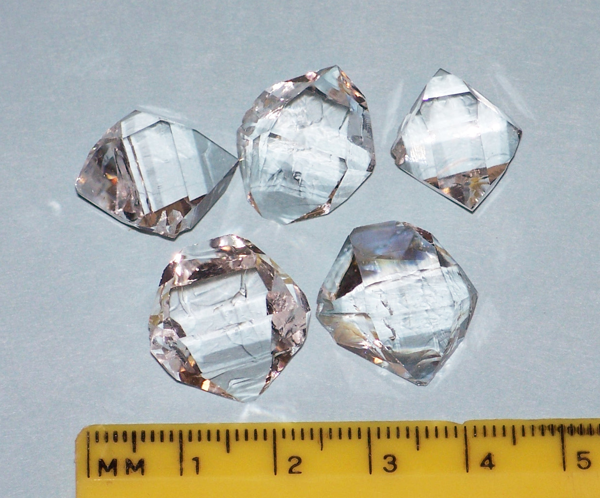 Synthetic Berlinite (AlPO4) crystals grown by a hydrothermal process. The ruler is numbered in cm with mm divisions.